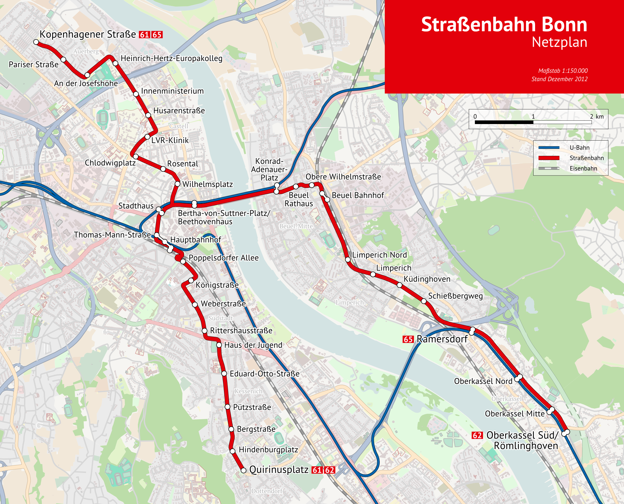 Network plan of the Bonn Tramway.